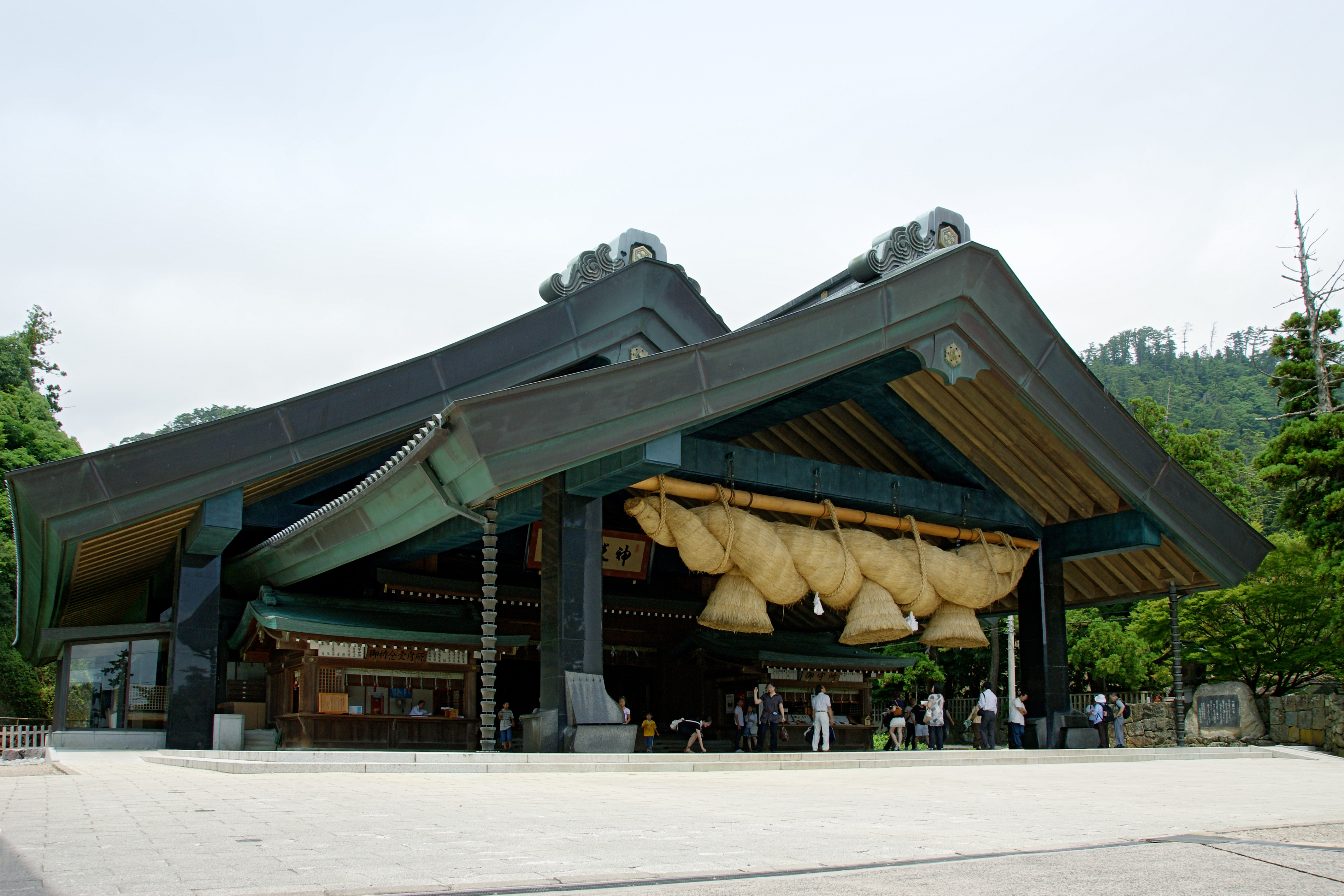 Izumo Taisya, Izumo, Shimane prefecture, Japan